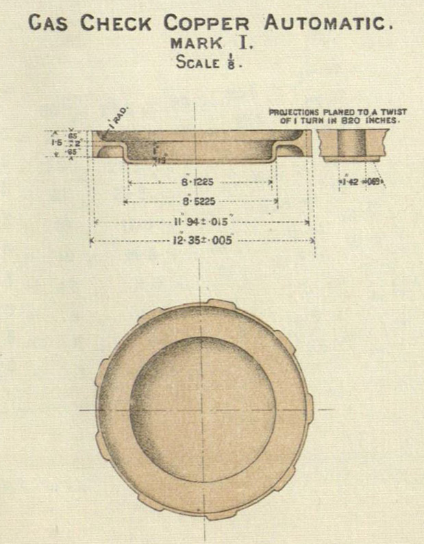 Detail drawing of Automatic Gas-Check Mark I for 12 inch RML Gun